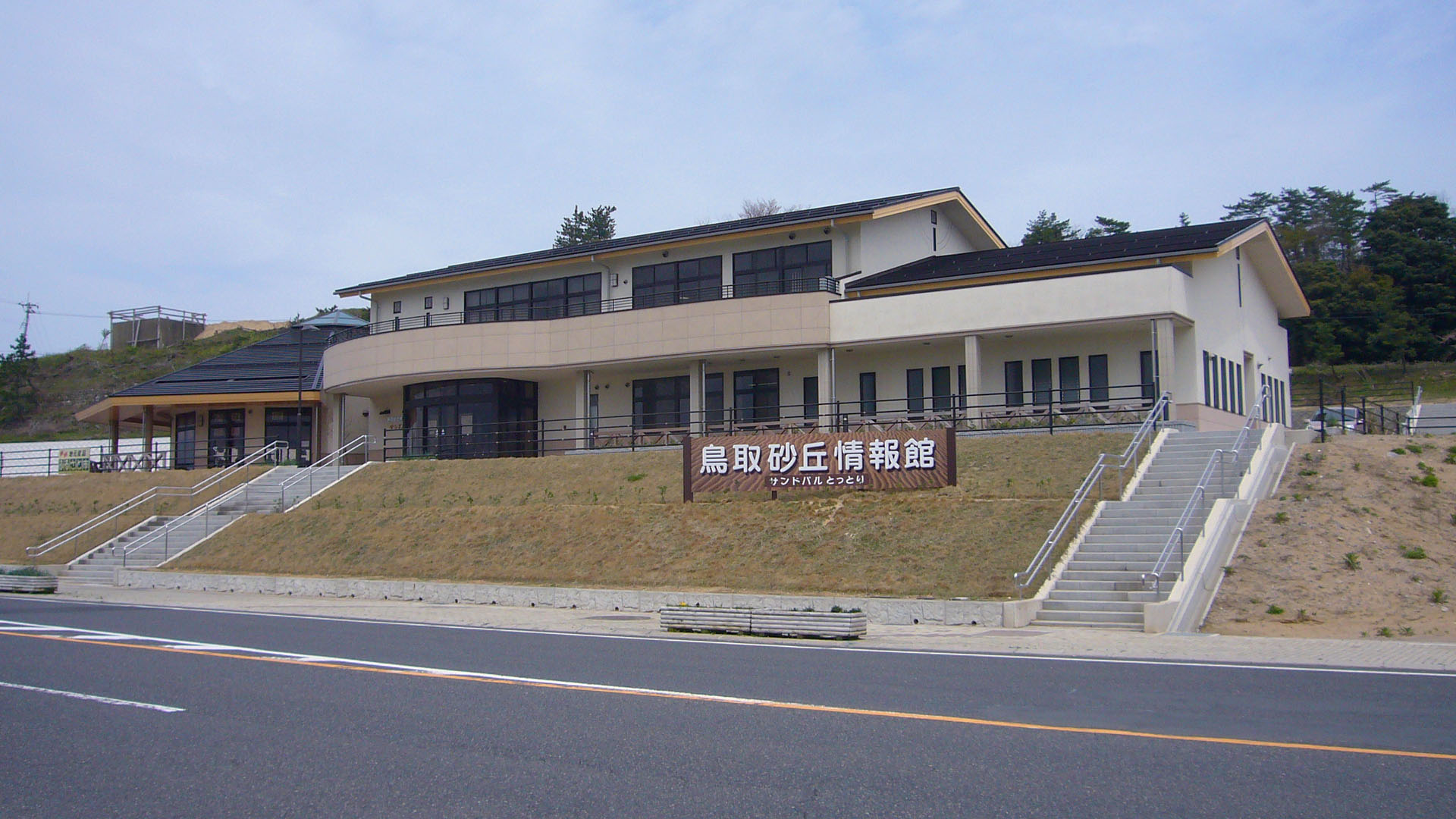 Tottori Sand Dunes Information Hall in Tottori, Tottori prefecture, Japan